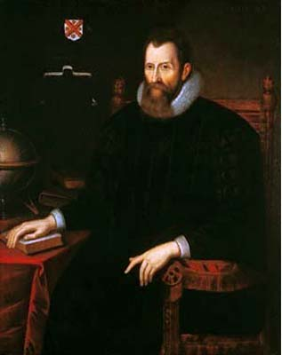 Portrait of John Napier (1550-1617), the inventor of logarithms; dated 1616; presented to the University of Edinburgh by his great granddaughter Margaret, who became Baroness Napier in 1686.